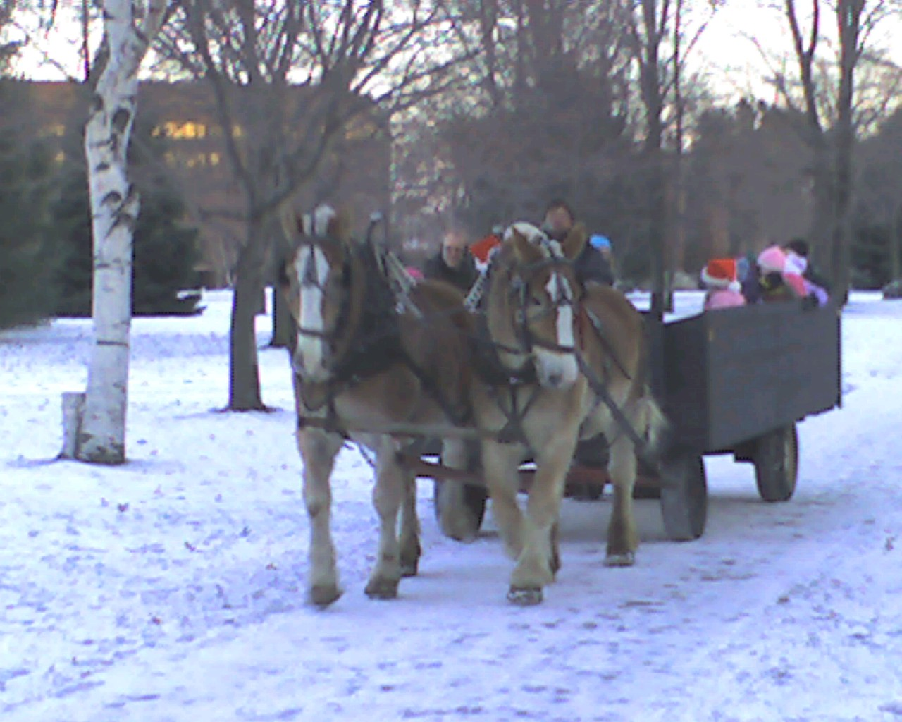 A hayride passes through the heart of NMU's campus. The university provides free hayrides to students as a means of transportation from November 20 - March 15.